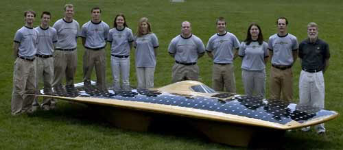 Team photo of Suntiger 6 on the Quad